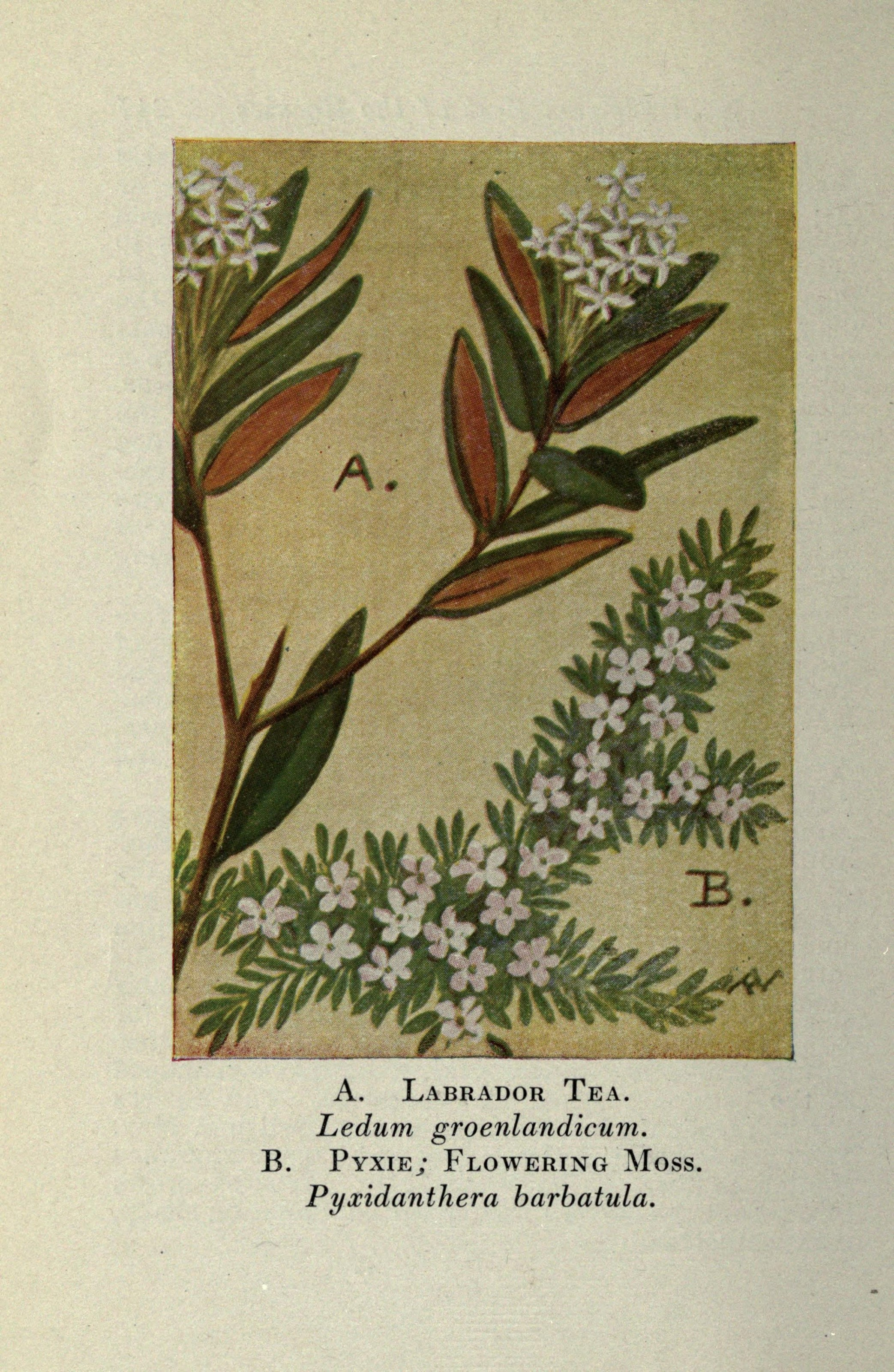 A. LABRADOR TEA. Ledum groenlandicum. B. PYXIE; FLOWERING Moss. Pyxidanthera barbatula.